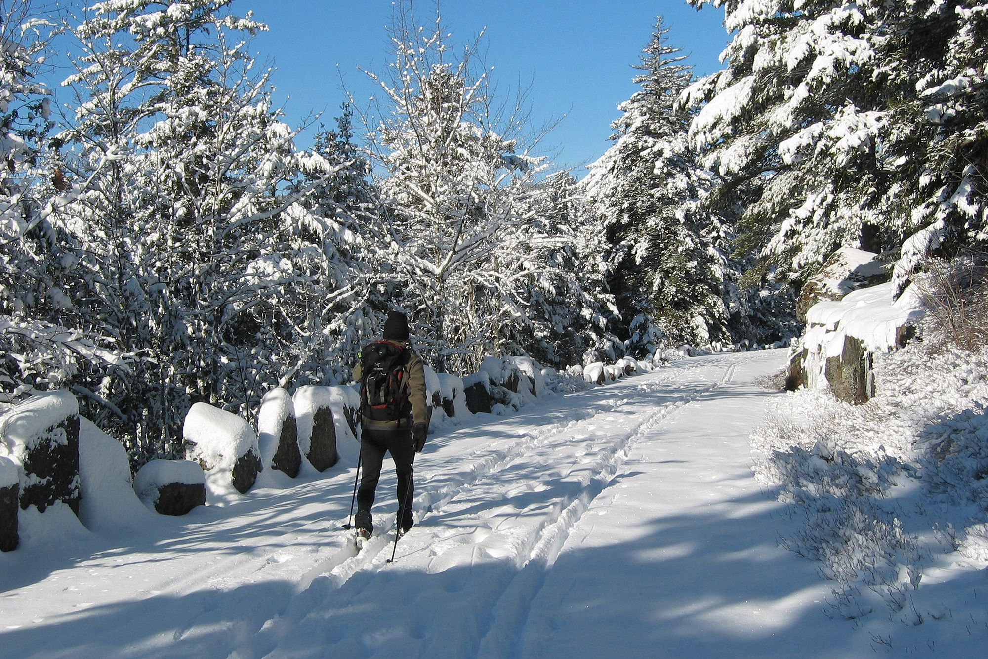 Cross-country skier on a carriage road in Acadia National Park, Maine, United States.